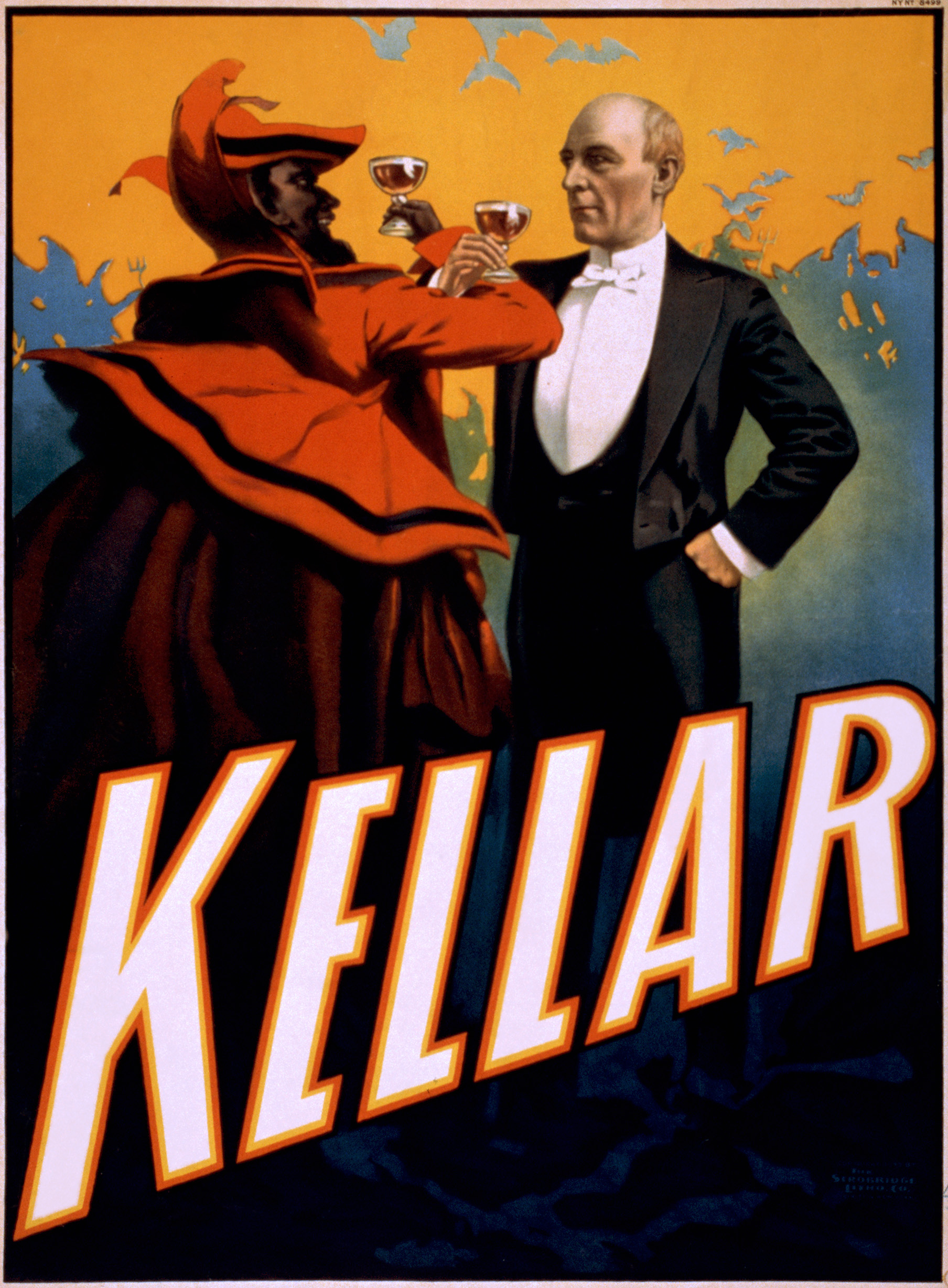 Yet another promotional poster for American magician (Harry) Kellar. This time he's having a glass of sherry with Mephistopheles. Promotional poster for Kellar by the Strobridge Lithograph Co., Cincinnati, New York, ca. 1899. From the Performing Arts Poster Collection at the Library of Congress More magician posters | More performing arts posters [PD] This picture is in the public domain.